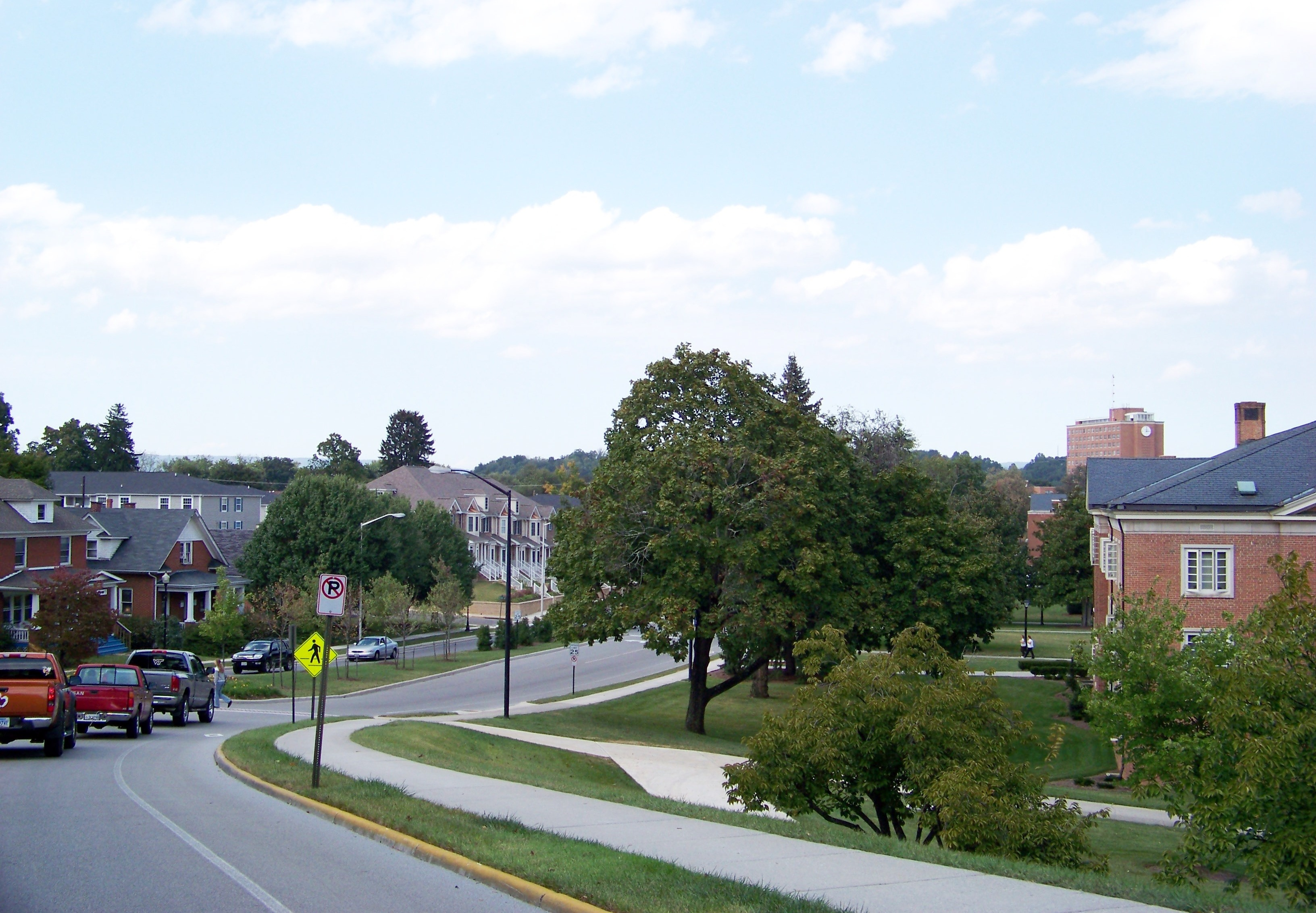 Radford, Virginia